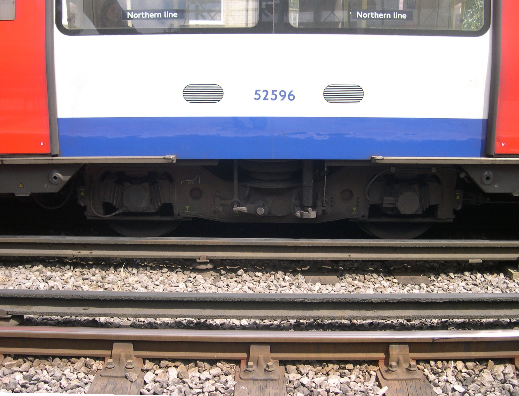 A bogie of a 1995 tube stock at Finchley Central Station